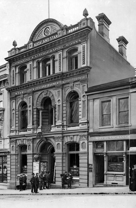 The building of the Auckland Star newspaper ca 1910 in Auckland City, New Zealand. Extended information on origin webpage reads: Auckland Star building, Shortland Street, Auckland [ca 1910] / Reference number: 1/1-002917-G 1 b&w original negative(s). Glass dry plate negative. / Part of Auckland Star :Negatives (PAColl-3752) Photographic Archive / Scope and contents: Auckland Star building, Shortland Street, Auckland, circa 1910. Next door is a building with signs advertising Royal Exchange, Wheatley & Co real estate agents, and Wm B Mowbray share broker. Photographer unidentified.